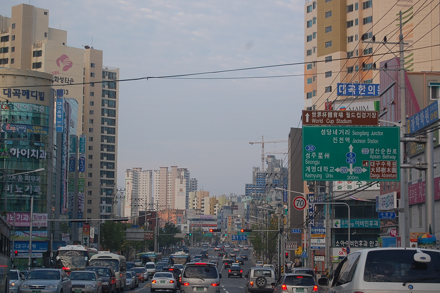 Korea, Daegu, Highway 5/29 trought the City Centre